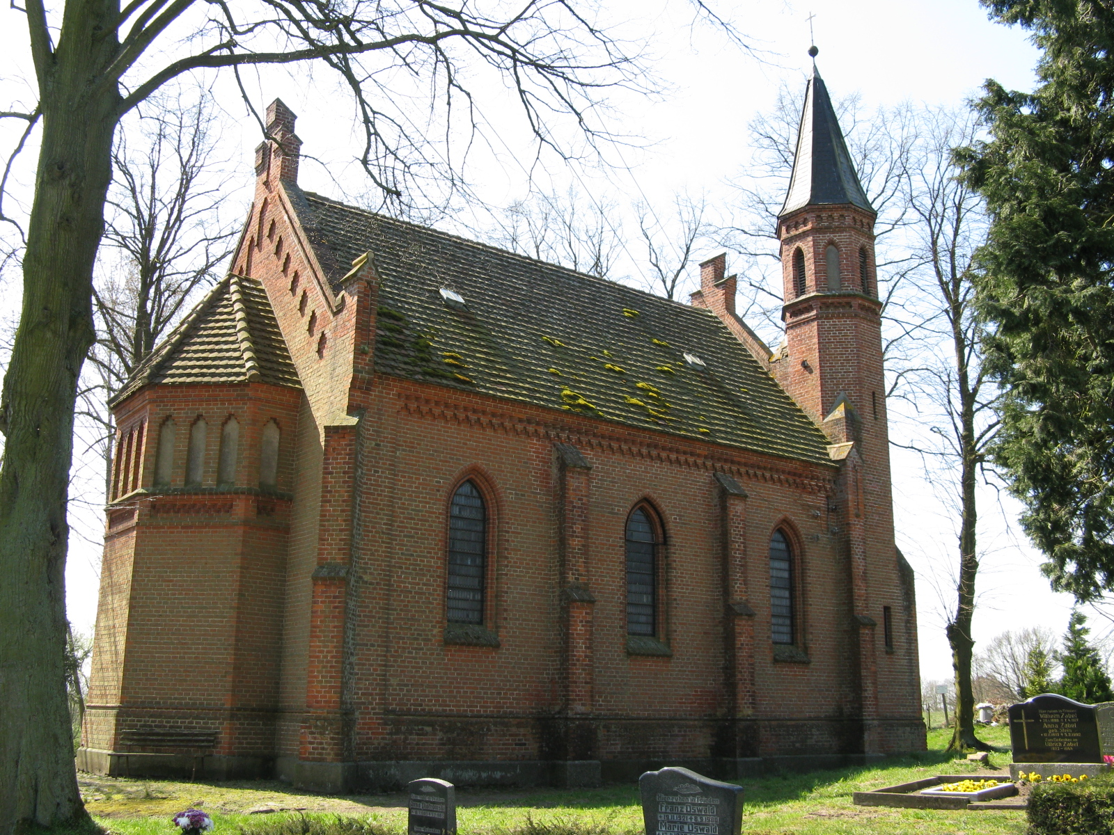 Church in Darß, Mecklenburg-Vorpommern, Germany